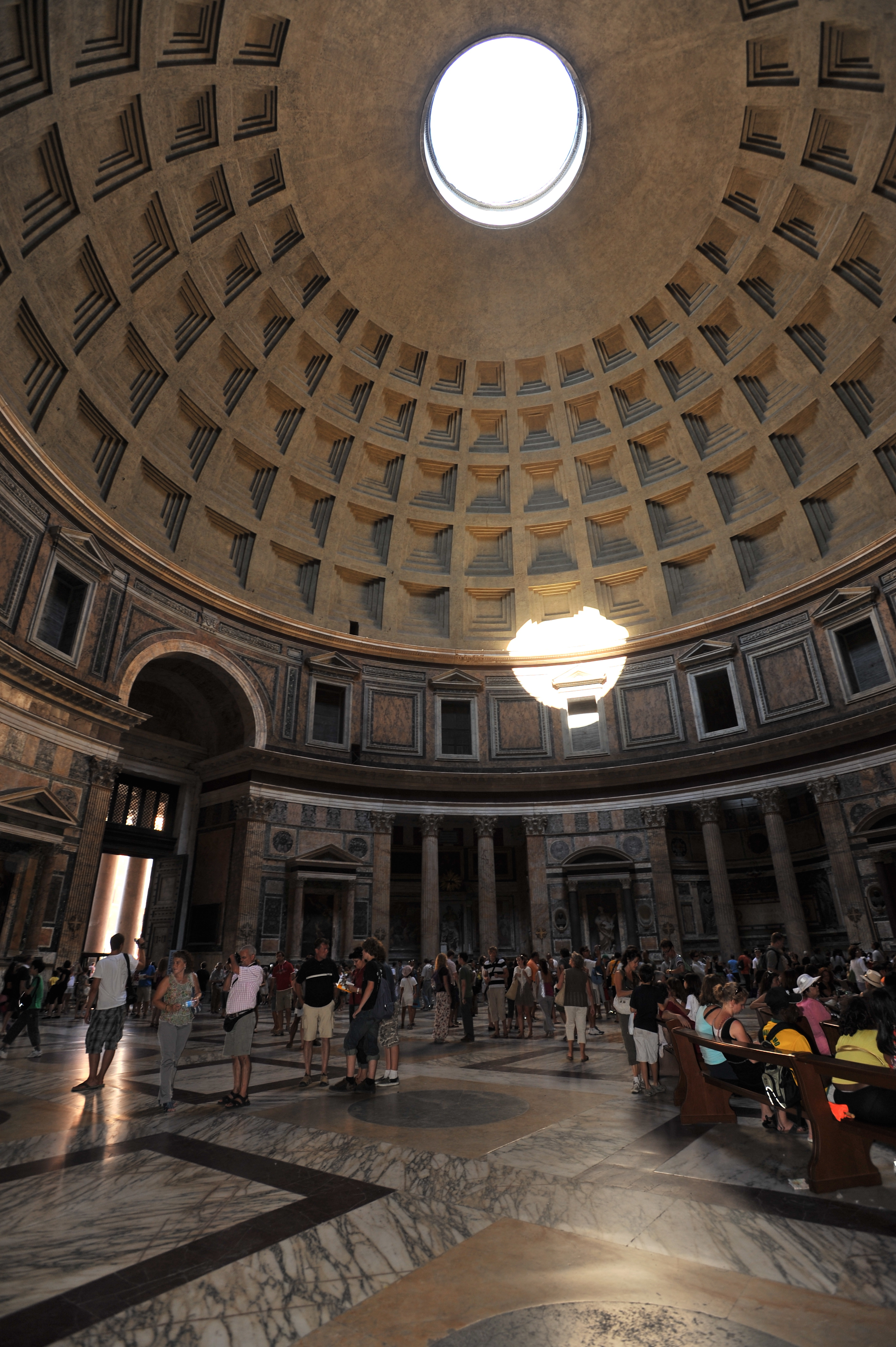 The Pantheon in Rome is the much celebrated building that has survived in excellent condition since antiquity. It bears the architects name on its facade and it was originally built to honor ALL the Gods. And based on its good condition it has received their blessing. Every dome or municipal building ever built, has copied some aspect of this evenly proportioned structure. The only light entering the building is through upper opening of the dome or oculus and its doorway. Rome, Italy